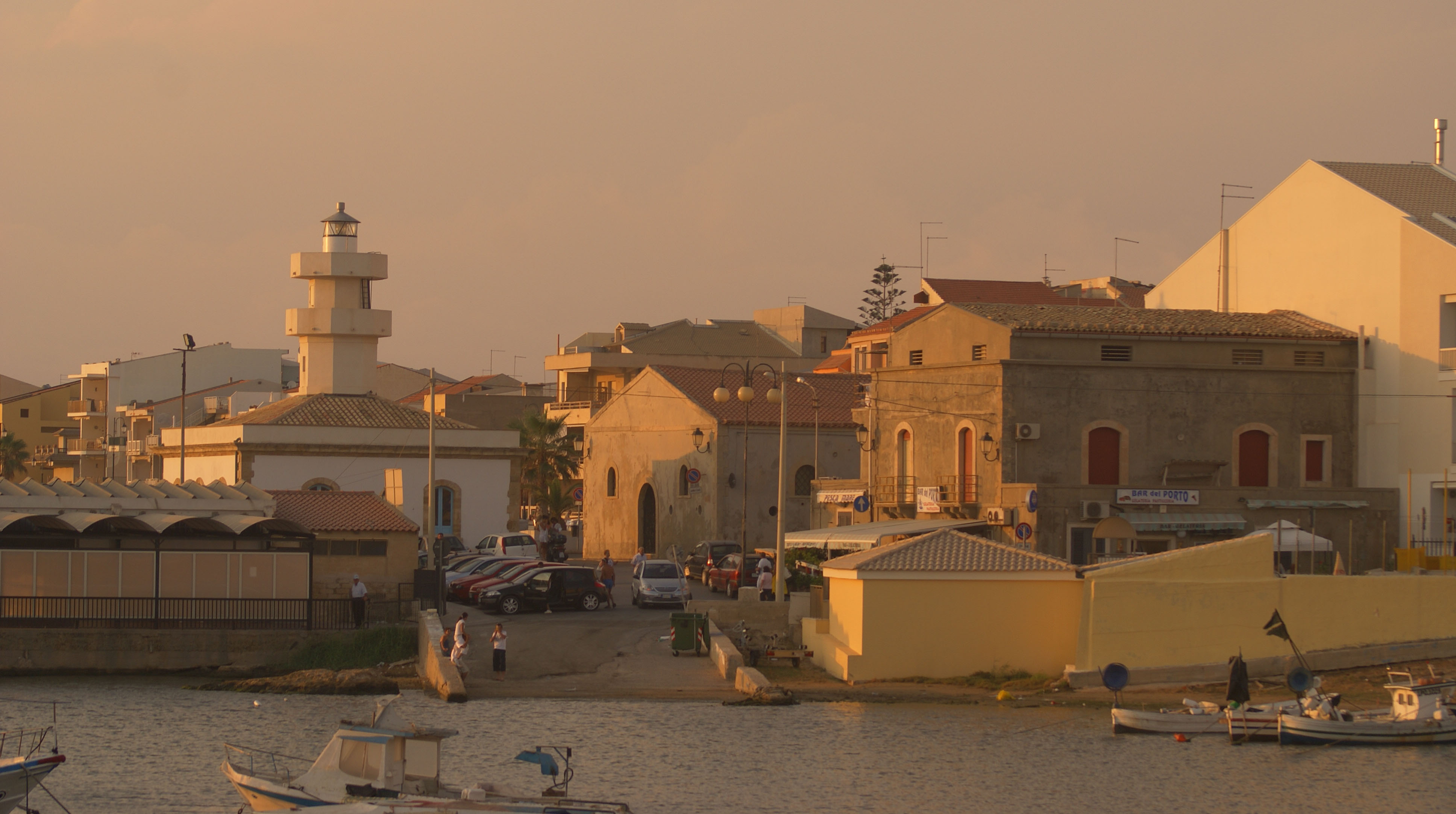 Just that color, just that idea of summer....